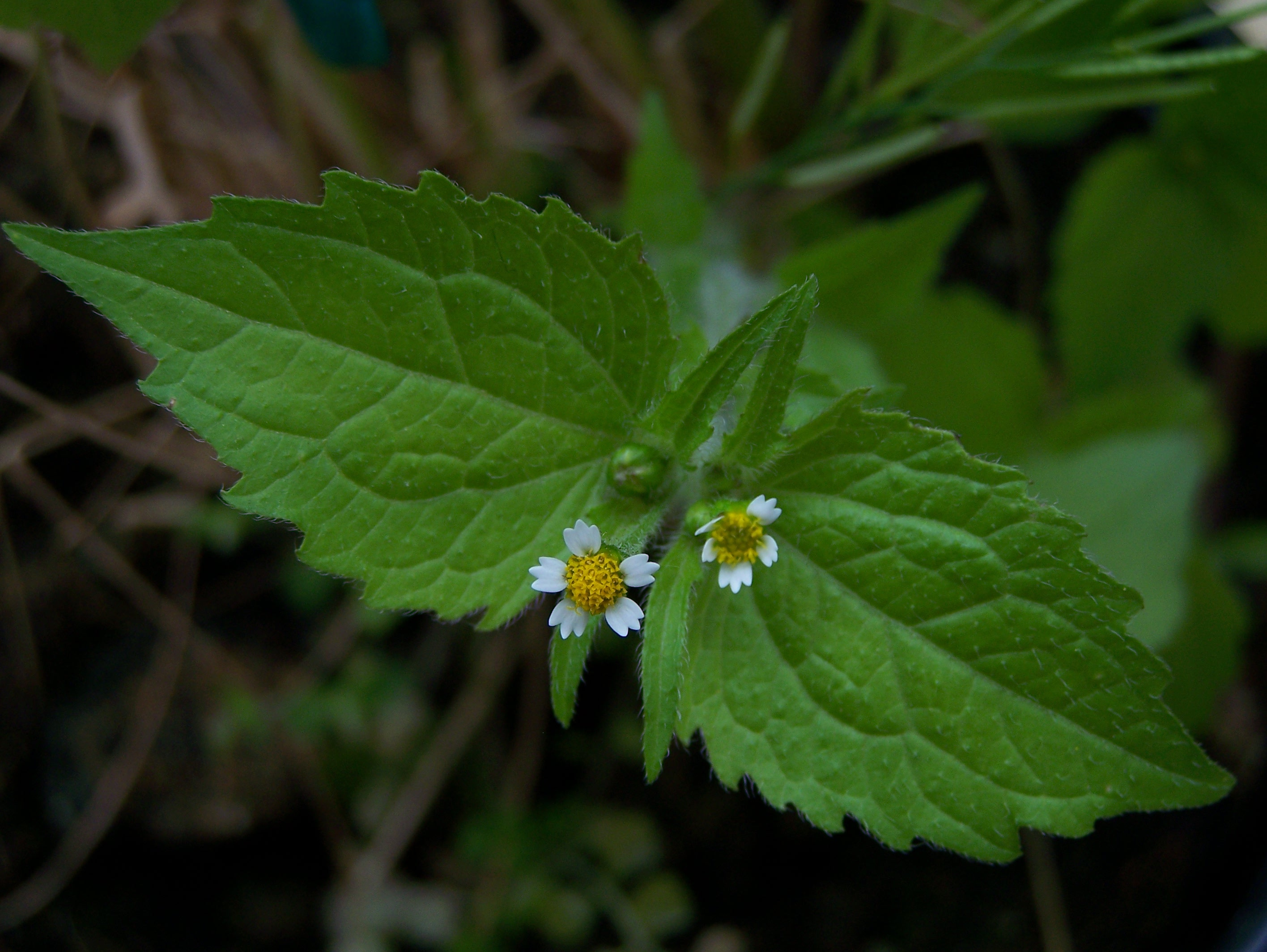 Galinsoga quadriradiata Ruiz López & Pavón Synonyms: Adventina ciliata Raf., Galinsoga parviflora var. hispida DC., Galinsoga quadriradiata ssp. hispida (DC.) Thell., Galinsoga ciliata (Raf.) S. F. Blake Common names: hairy galinsoga, Peruvian daisy, shaggy soldier, and fringed quickweed. It is found throughout most of the temperate world, but apparently its native home is Mexico.